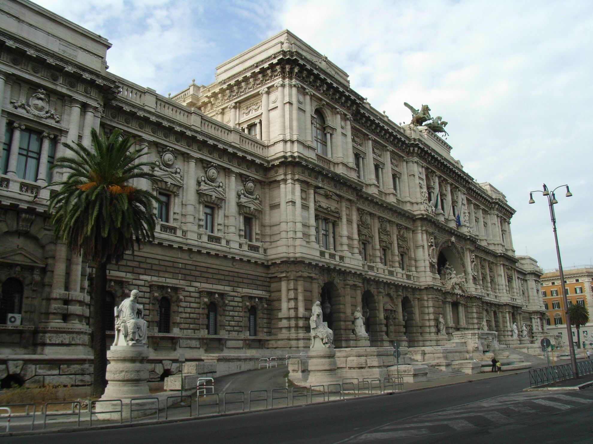 Palace of Justice Rome